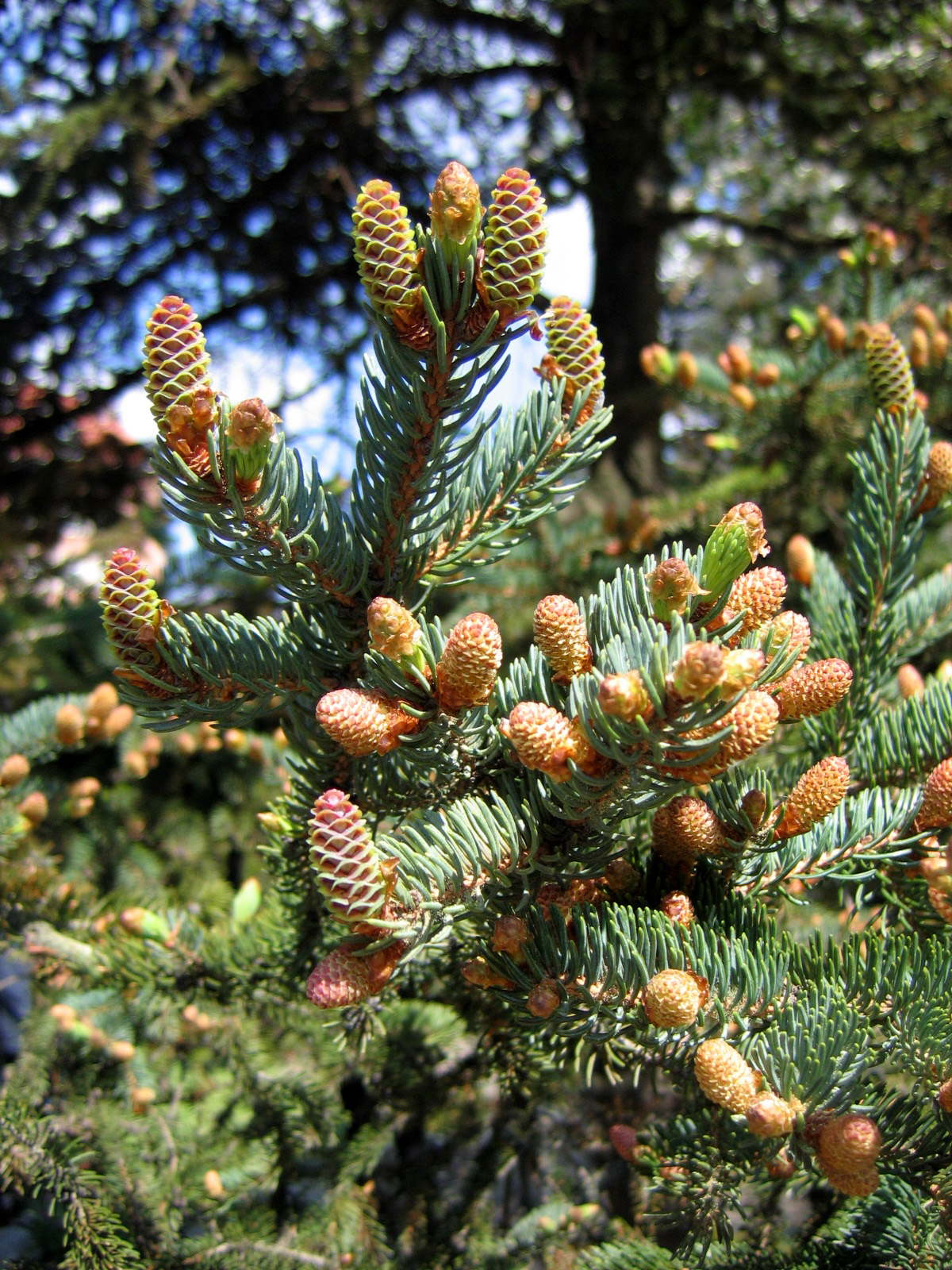 White spruce (Picea glauca), cultivated in Wrocław University Botanical Garden, Wrocław, Poland.